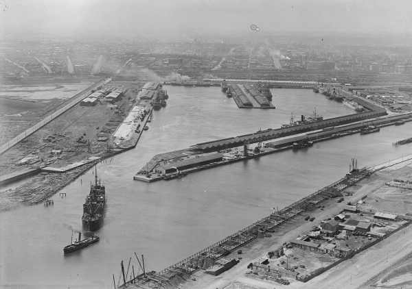 Victoria Docks in Melbourne in the 1920s